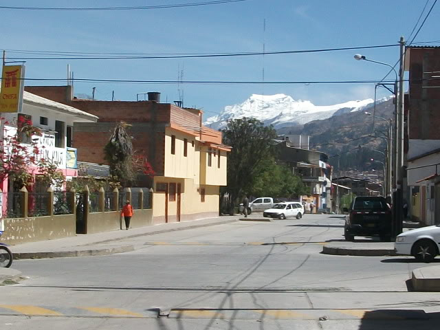 Jiron Simon Bolivar en Huaraz